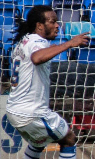 Ian Goodison. Image cropped from original at flickr.